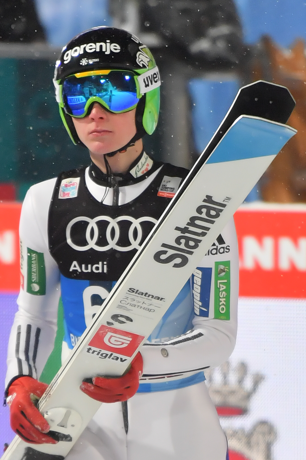 FIS Ski Jumping World Cup, Four Hills Tournament, Bischofshofen 2017.